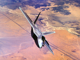 Raptor 4002 en route to Edwards AFB from Marietta, GA, on the [F-22] program's first cross country, August 26, 2008. The F-22 was piloted by Lt. Col. Steve Rainey